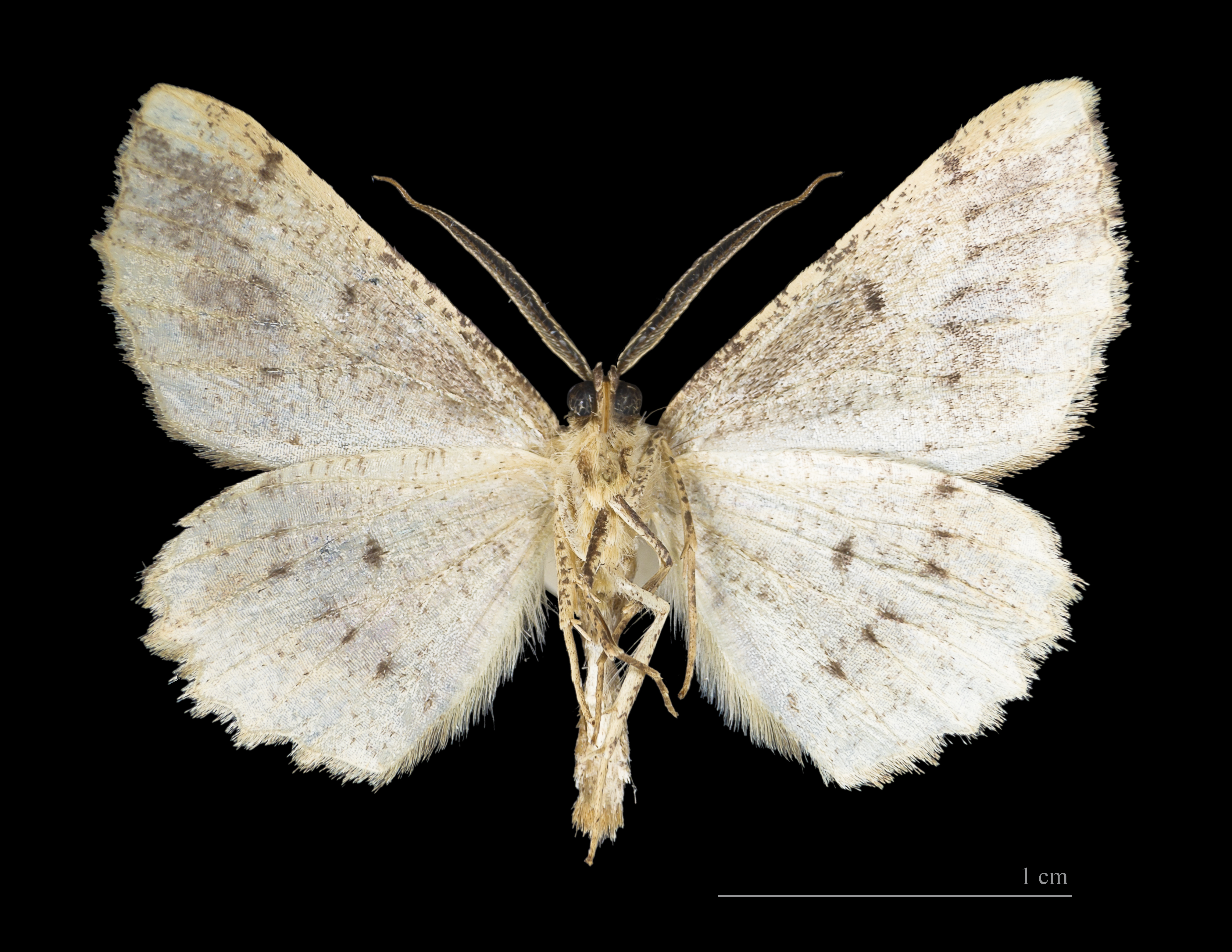 Waved Umber ♂ - △ Ventral side Locality:Lasparets, Sainte-Croix-Volvestre, Ariège, France